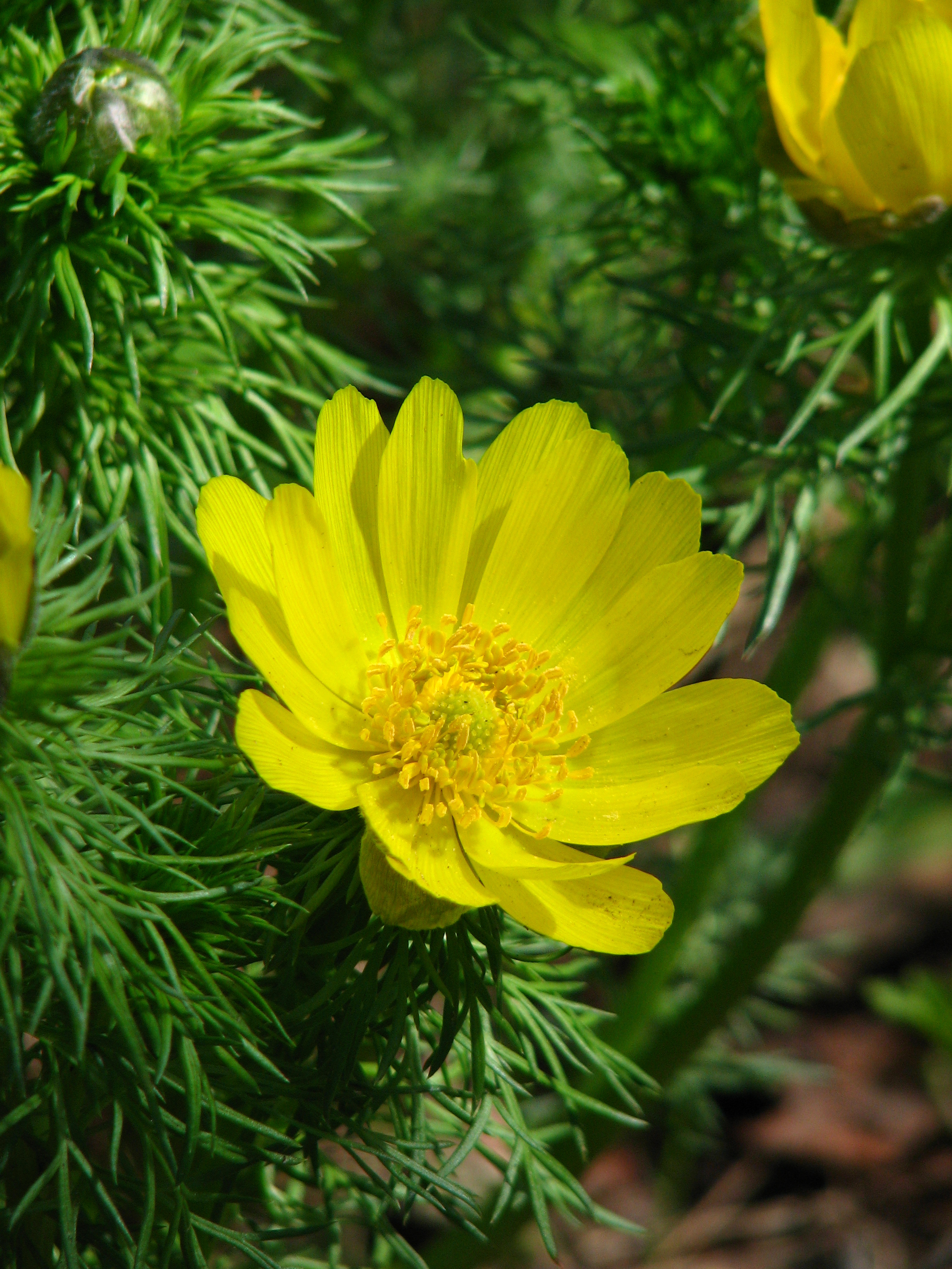 Adonis vernalis in flower beds in the Botanical Garden of Moscow State University "Aptekarsky Ogorod".